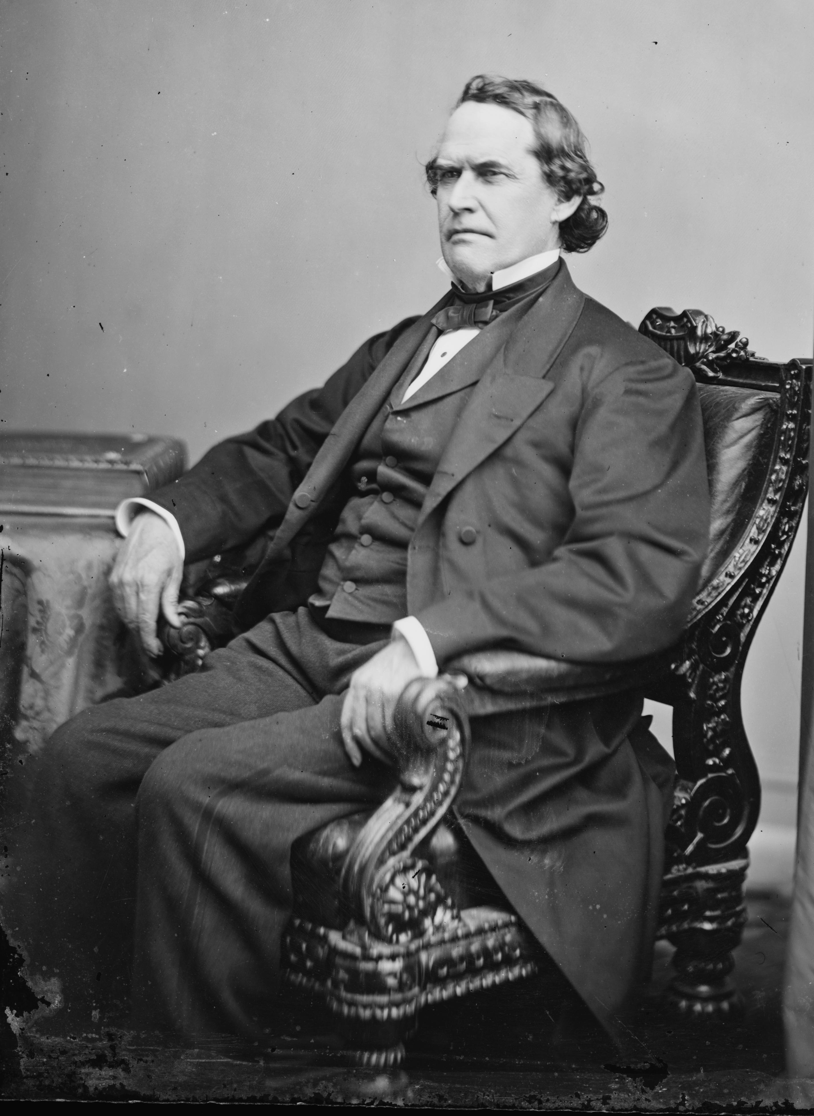 George Funston Miller. Library of Congress description: "Hon. Geo. F. Miller of Pa"